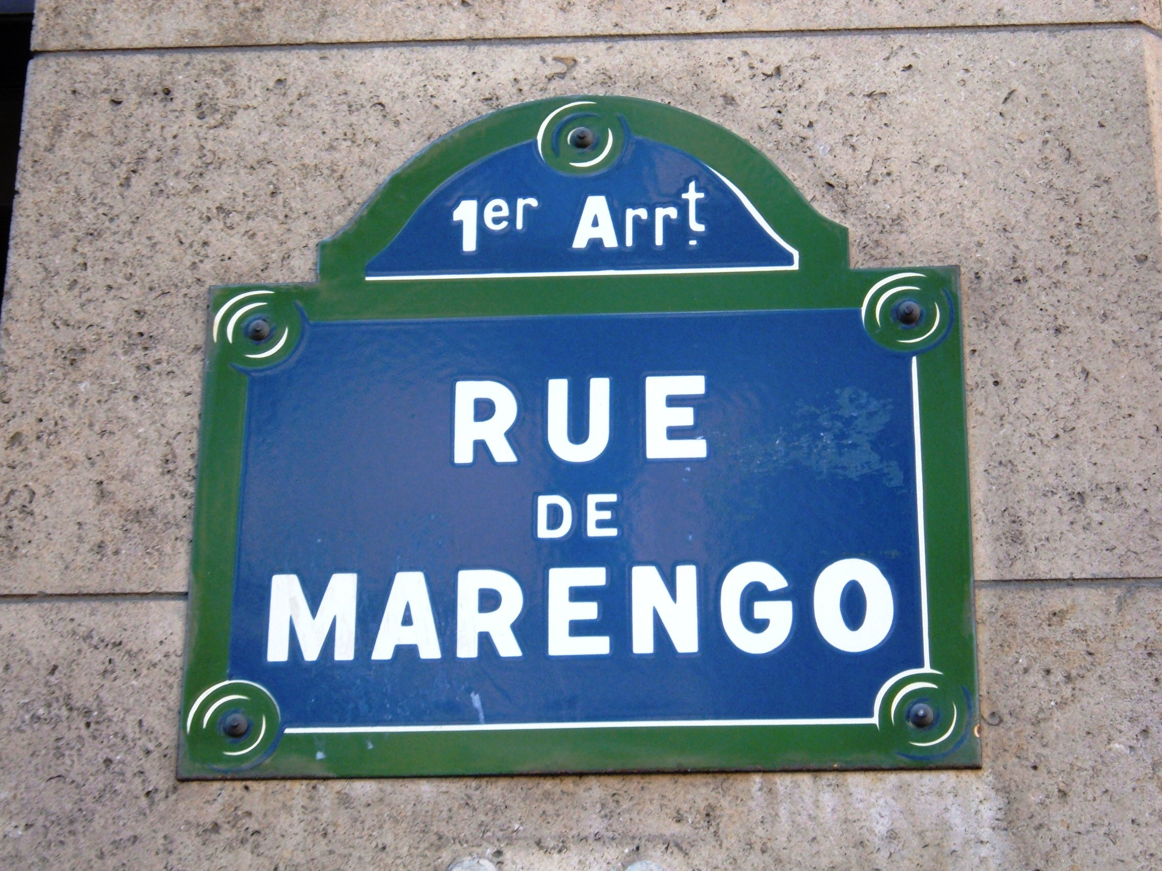 Street sign for the Rue de Marengo in the 1st Arrondissement, Paris, France.